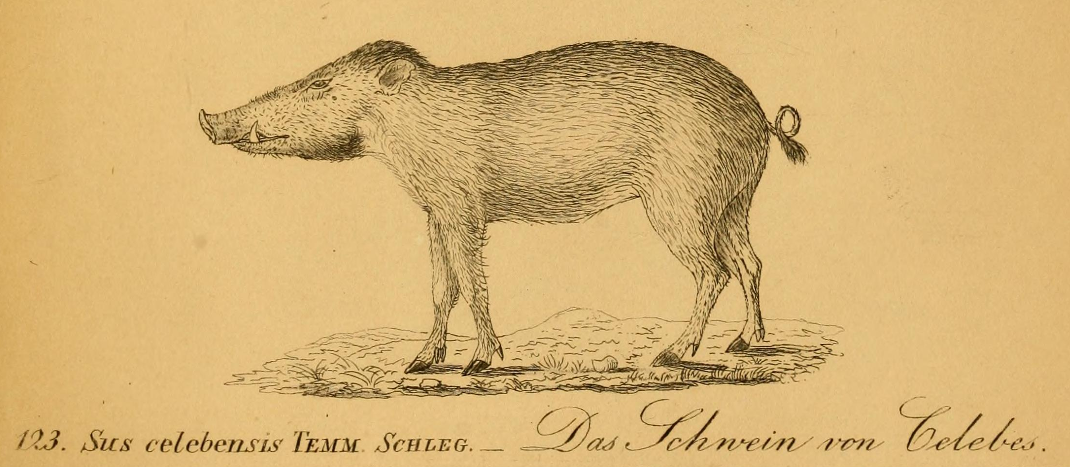 Sus celebensis